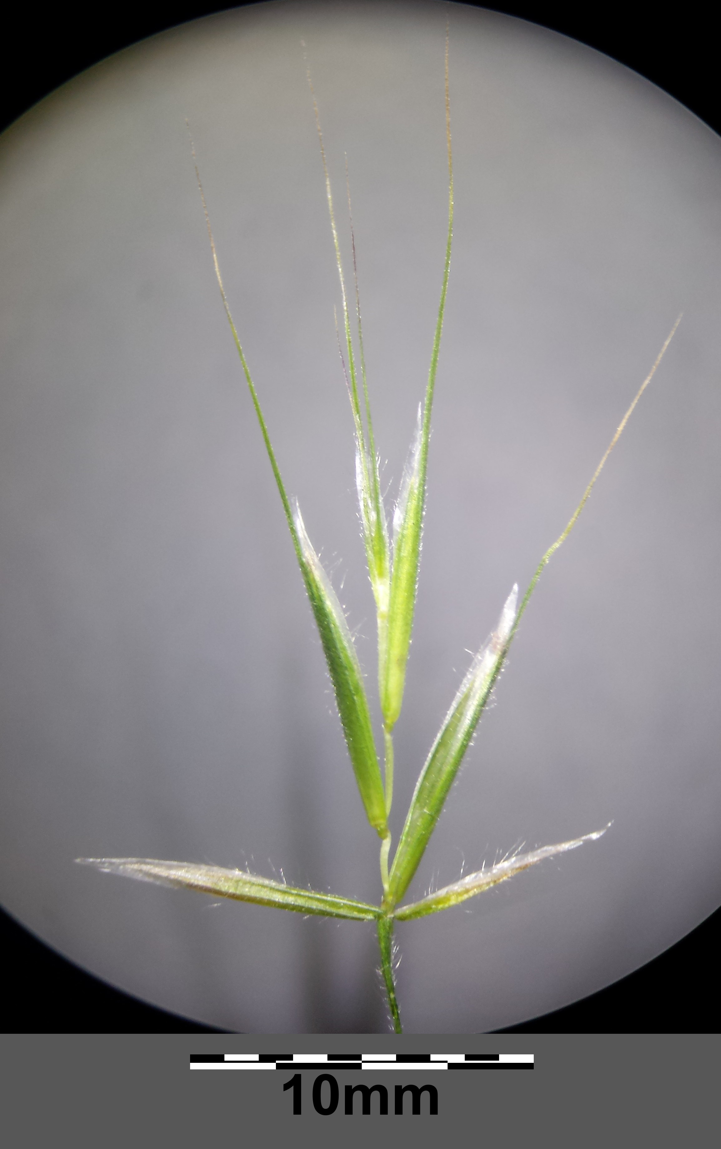 Spikelet Taxonym: Bromus tectorum ss Fischer et al. EfÖLS 2008 ISBN 978-3-85474-187-9 Location: Jedlersdorf rail station, Vienna-Floridsdorf - ca. 160 m a.s.l. Habitat: ruderal area